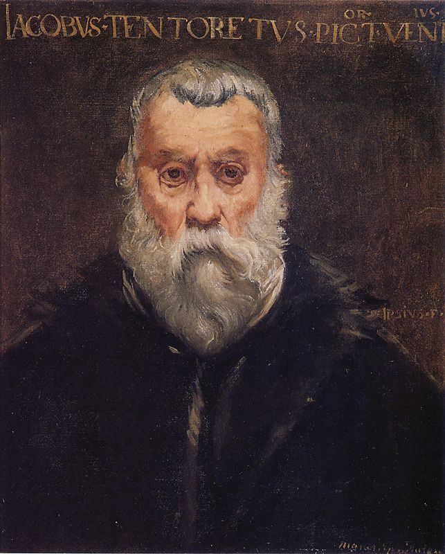 copy by Édouard Manet of the self-portrait by Tintoretto.